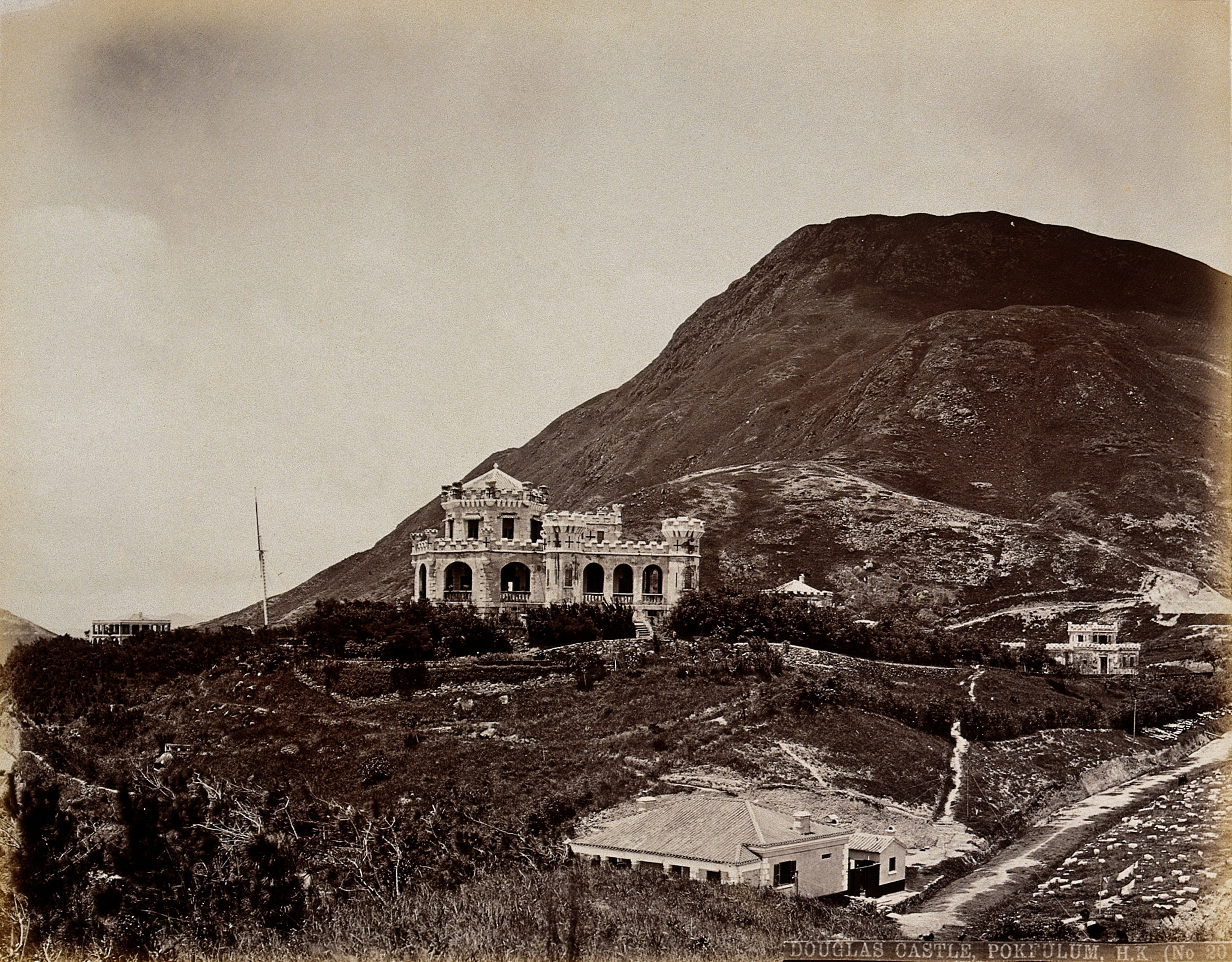 Hong Kong: Douglas Castle, Pokfulum. Photograph. Iconographic Collections